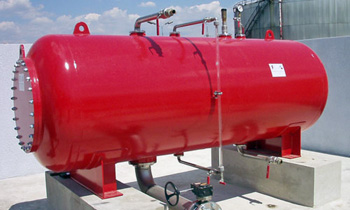 An example of the foam storage in the FoamFatale system